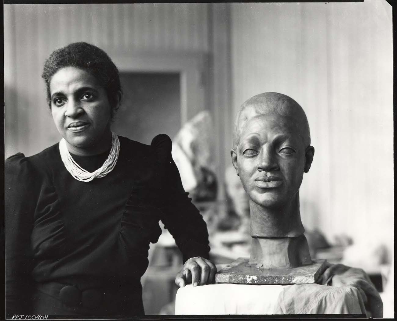 Description: Selma Hortense Burke is one of the few African-American women sculptors who achieved a high level of national recognition during her lifetime. She received national recognition for her relief portrait of Franklin Delano Roosevelt which was the model for his image on the dime. She was committed to teaching art to others, so she established the Selma Burke Art School in New York City and opened the Selma Burke Art Center in Pittsburgh, PA. Creator/Photographer: Peter A. Juley & Son Medium: Black and white photographic print Dimensions: 8 in x 10 in Culture: American Persistent URL: [1] Repository: Smithsonian American Art Museum Native nameSmithsonian American Art MuseumLocationWashington, D.C., United States of AmericaCoordinates38° 53′ 52″ N, 77° 01′ 22″ W Established1829Website control : Q1192305 VIAF: 146976922 ISNI: 0000 0001 2284 7868 ULAN: 500311465 LCCN: n81062959 NLA: 36217051 GND: 5523897-X SUDOC: 027276376 BNF: 15062905s WorldCat Collection: Peter A. Juley & Son Collection Accession number: J0100404